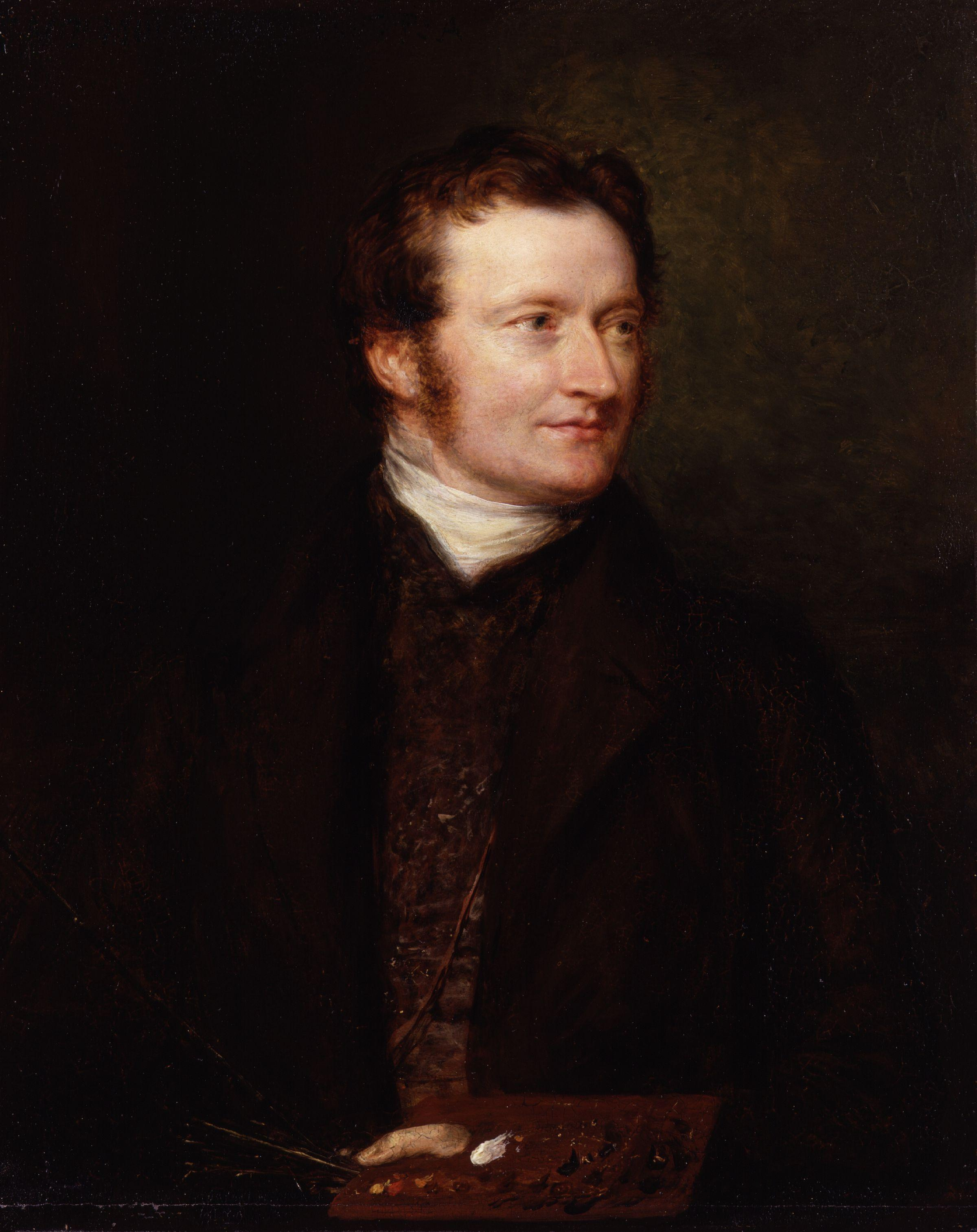 All images in this batch have been confirmed as author died before 1939 according to the official death date listed by the NPG.